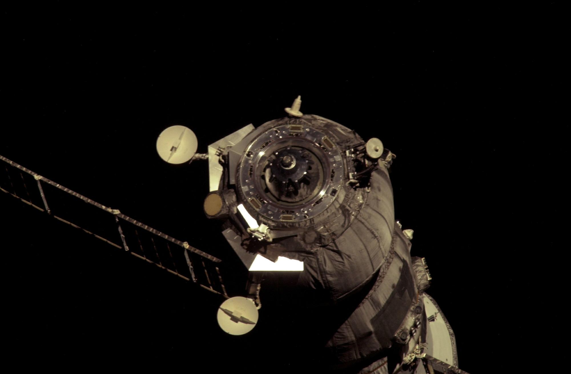 Progress M-50 seen from the International Space Station during undocking.